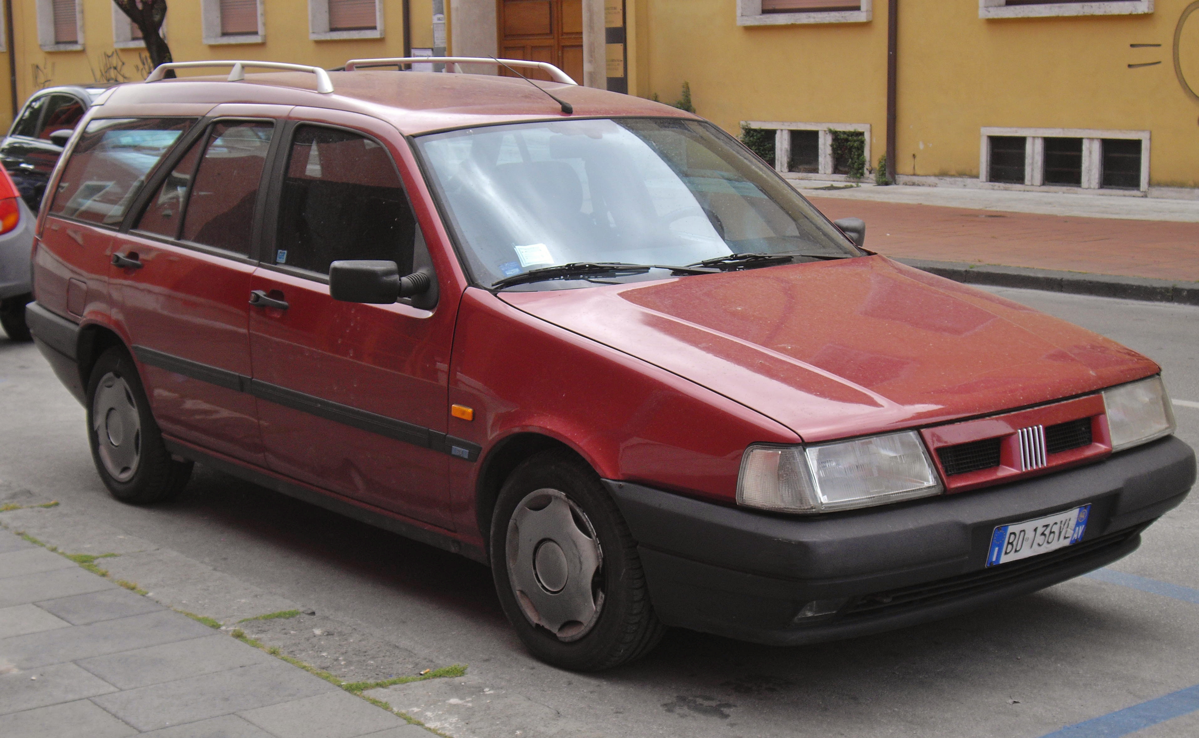 Fiat Tempra Weekend (Station Wagon) in Avellino, Italy